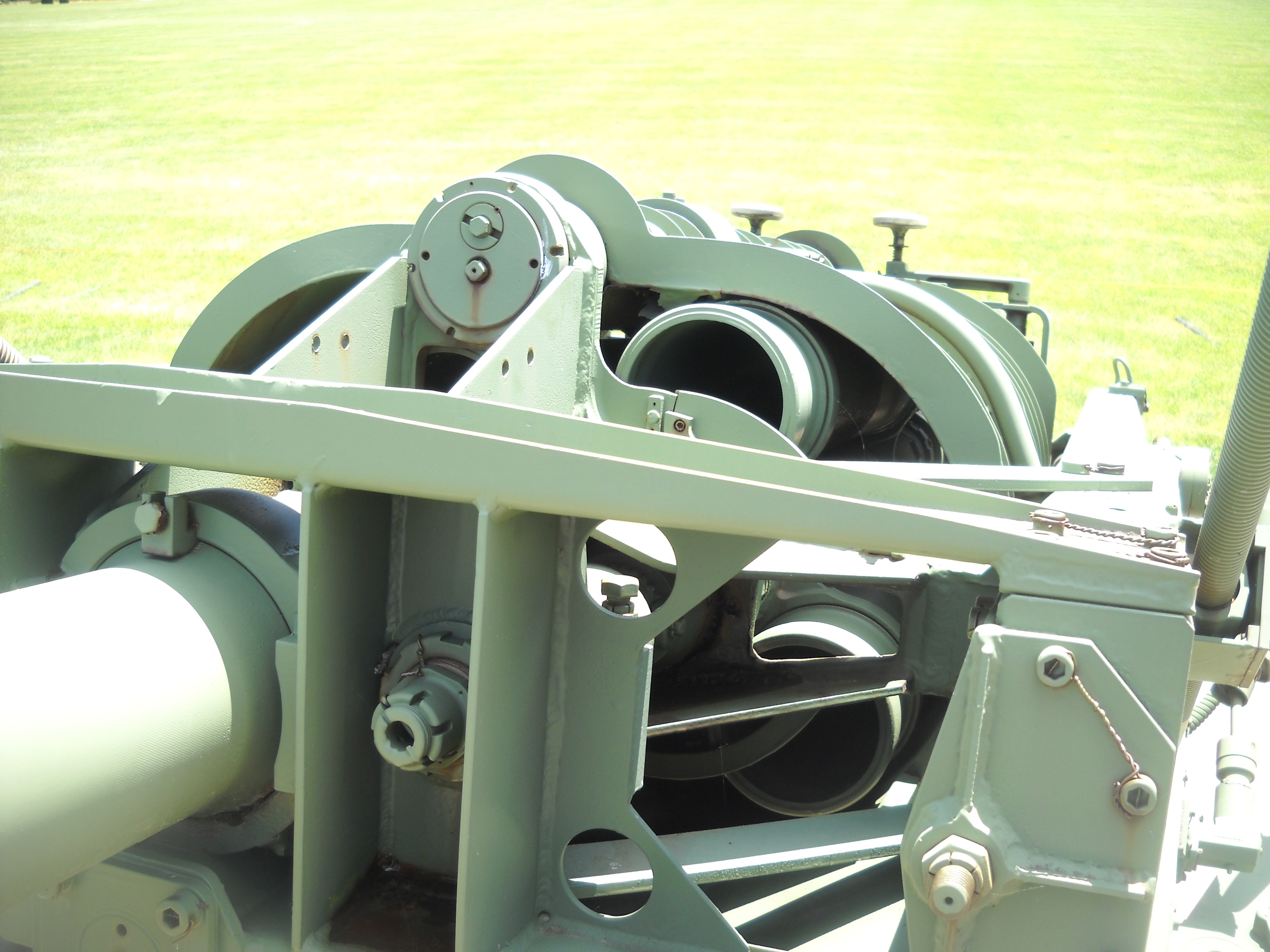 The revolving magazine on the XM70E2 which loads the rockets into the launch tube in succession